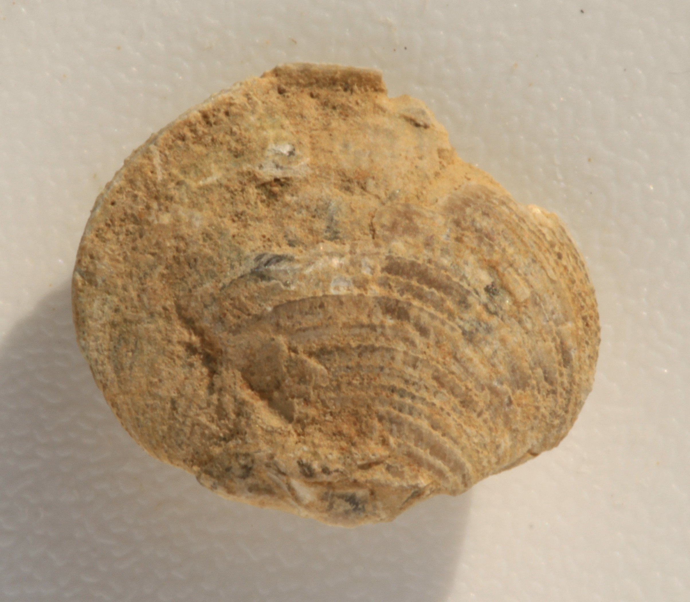 The lampshell Cleiothyridina sublamellosa, Order Athyridida, Family Athyrididae, 13mm along the axis, pedunculate valve, found near Blount, Alabama, USA, from the Lower Carboniferous (Missisippian) (Bangor)